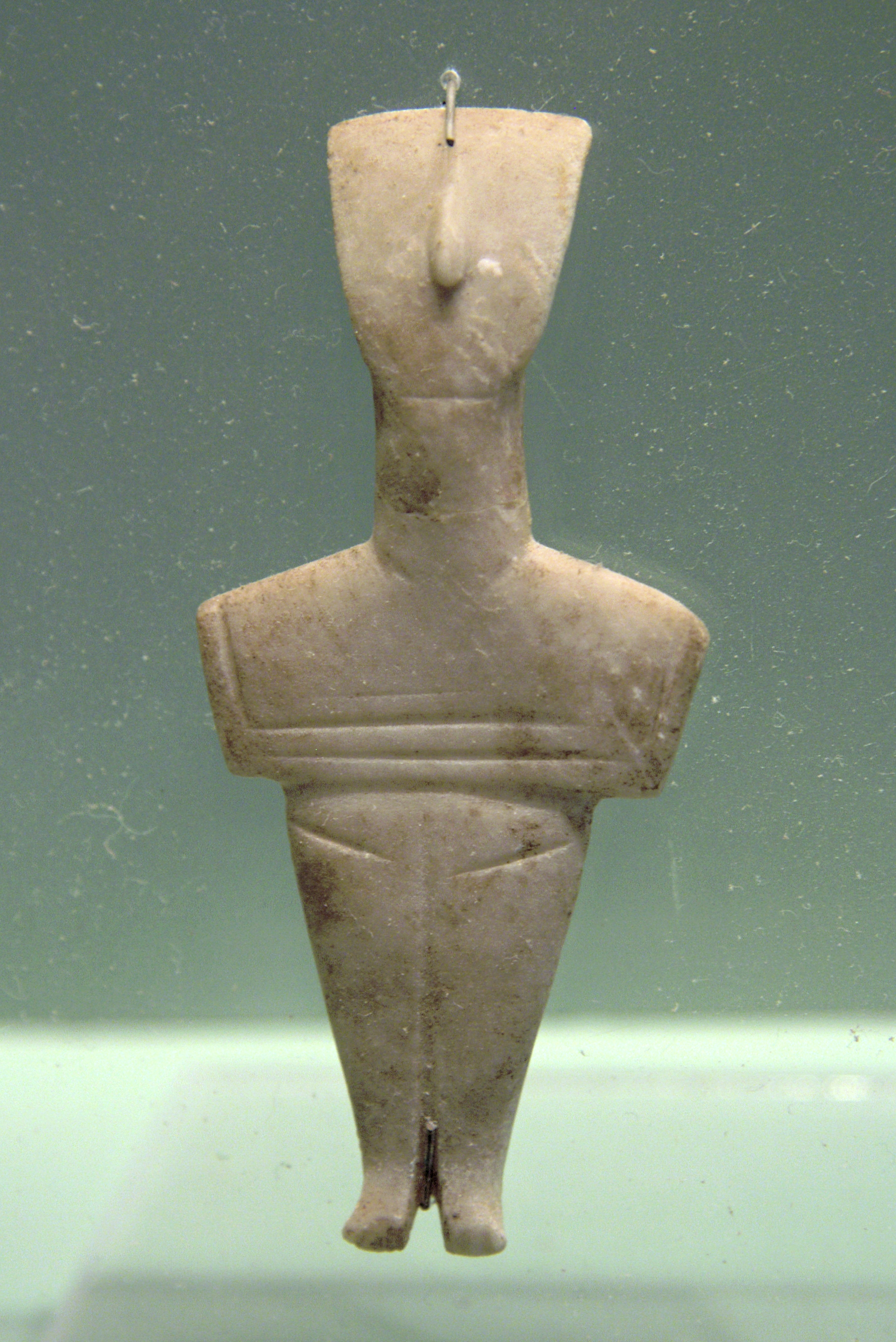 Marble female figurine of cycladic type. It belongs to the Koumasa variety, the most common type that imitates cycladic figurines in Crete. Early bronze age II, ca 2800-2200 BC. Archaeological Museum of Chania.